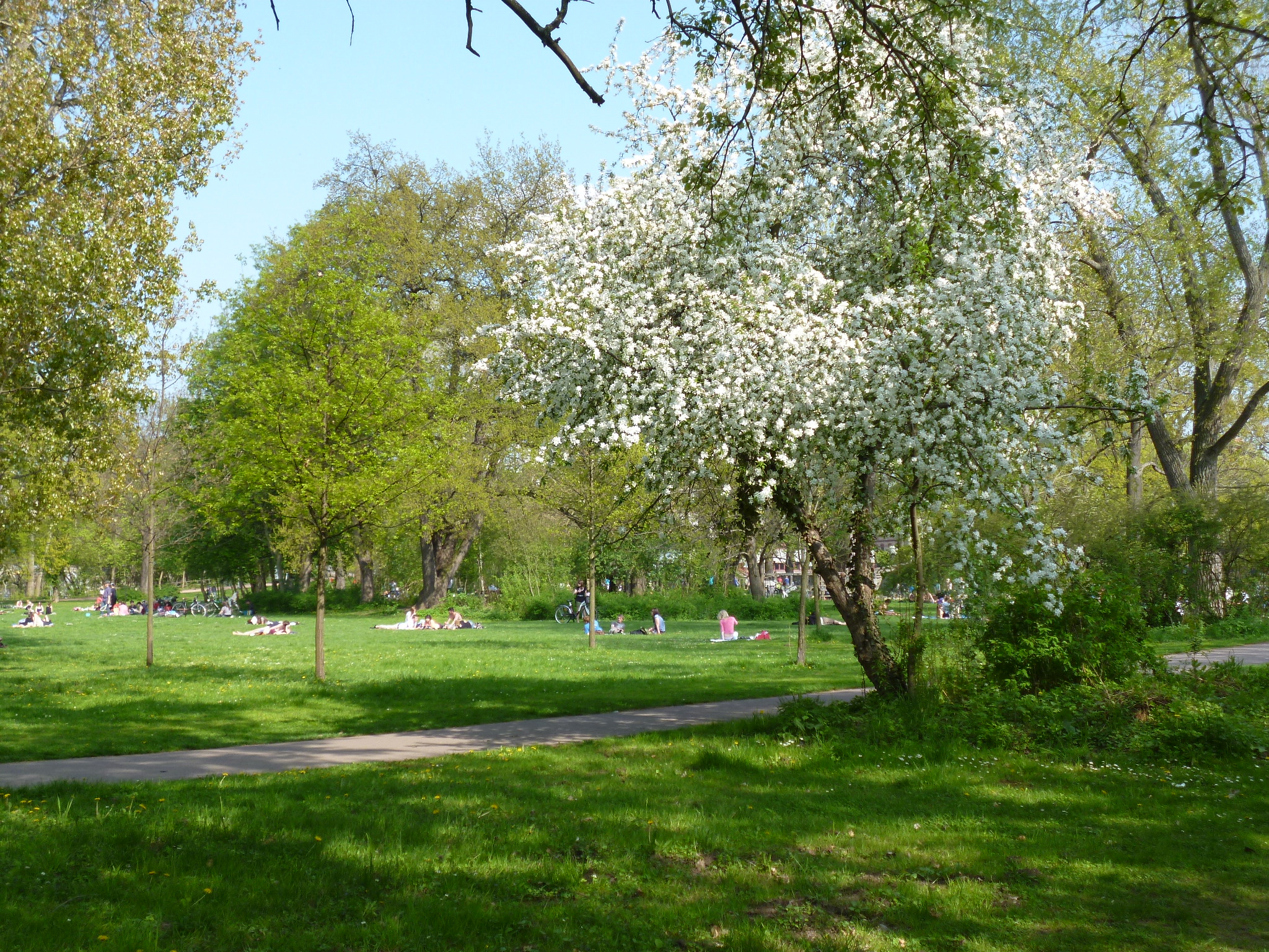 Park "Würfelwiese" in Halle (Saale)